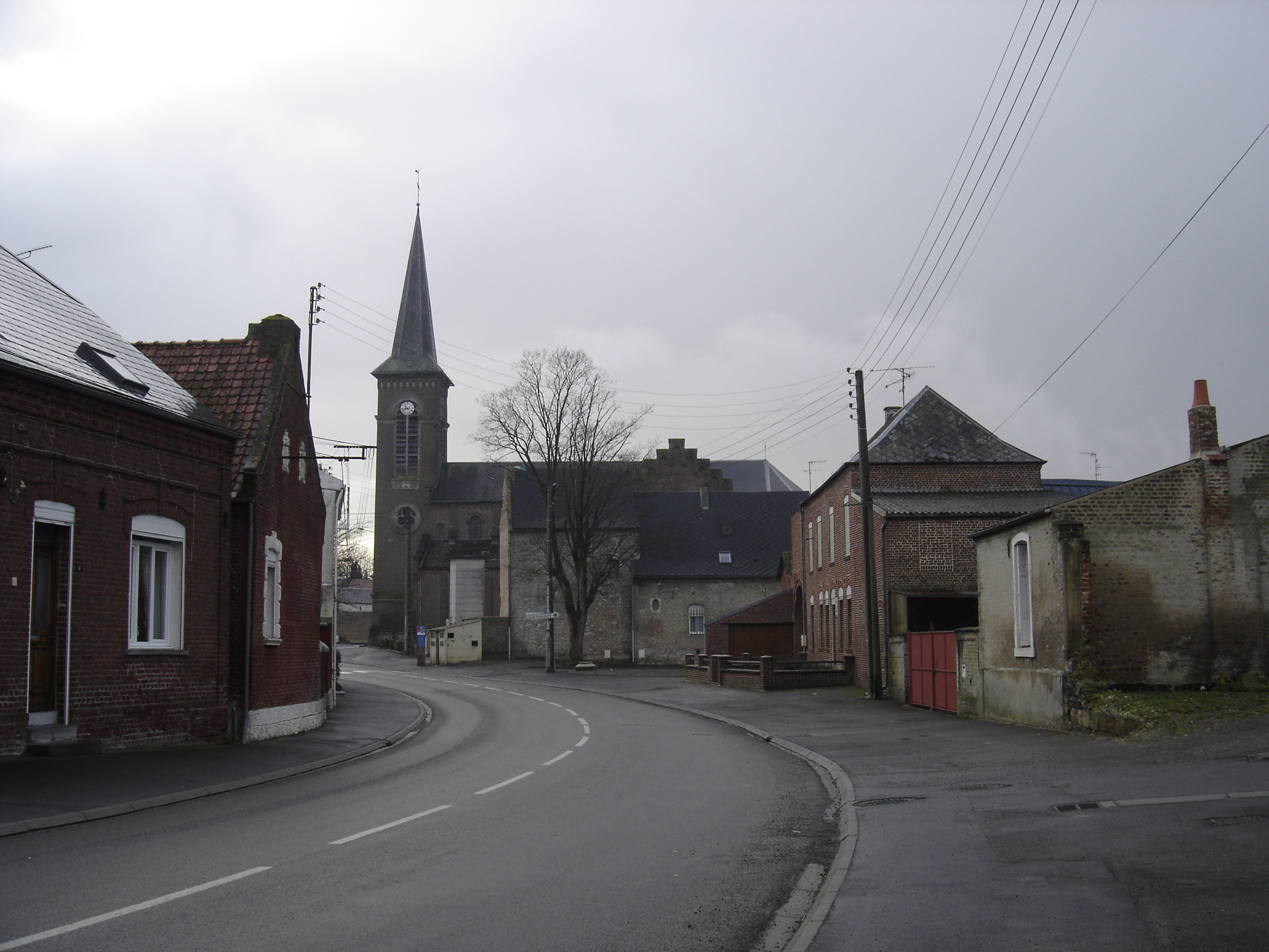 Troisvilles Center of the village and Saint-Martin church